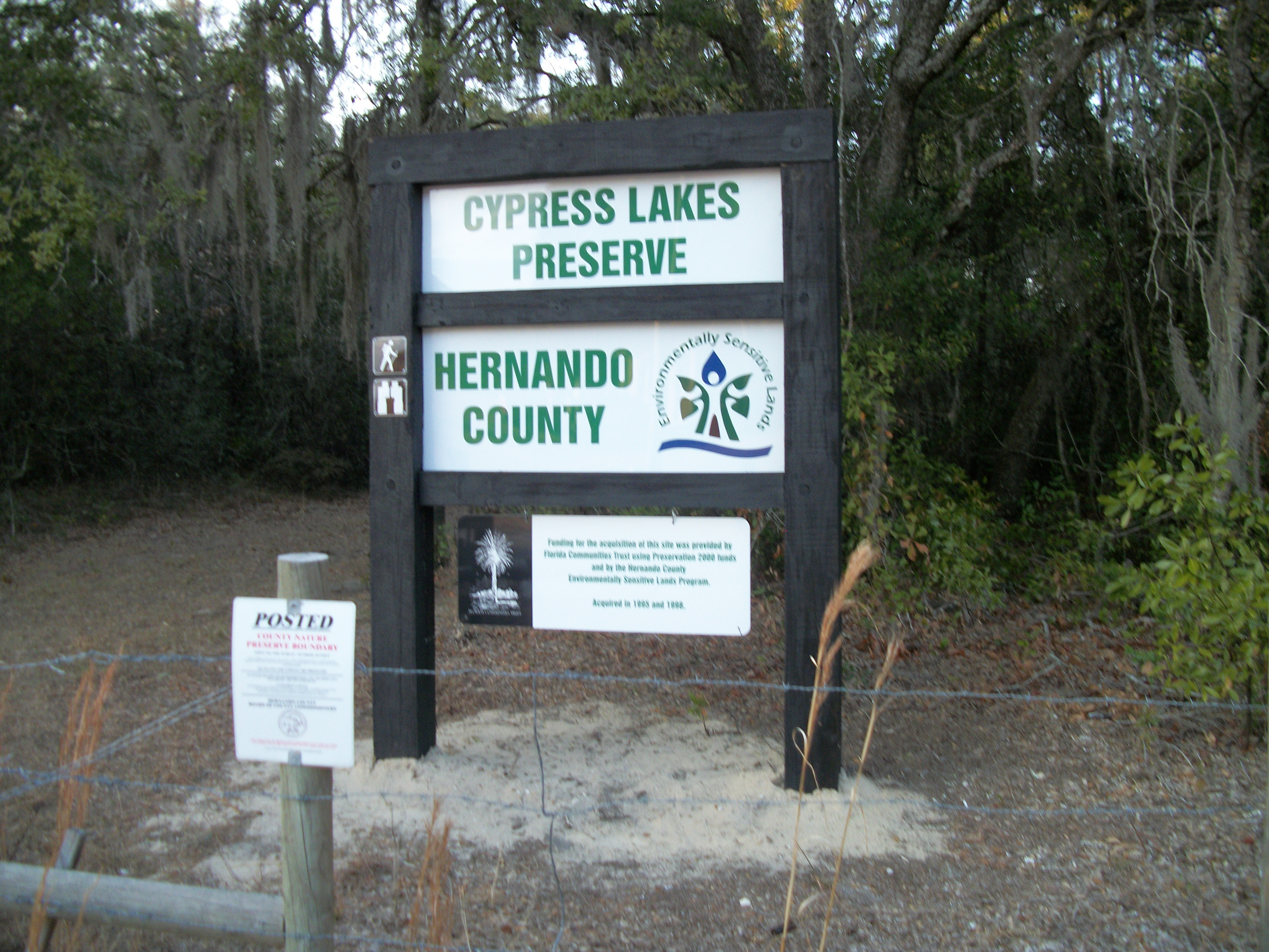 Sign for the Cypress Lakes Preserve on Ridge Manor Boulevard in Ridge Manor, Florida.